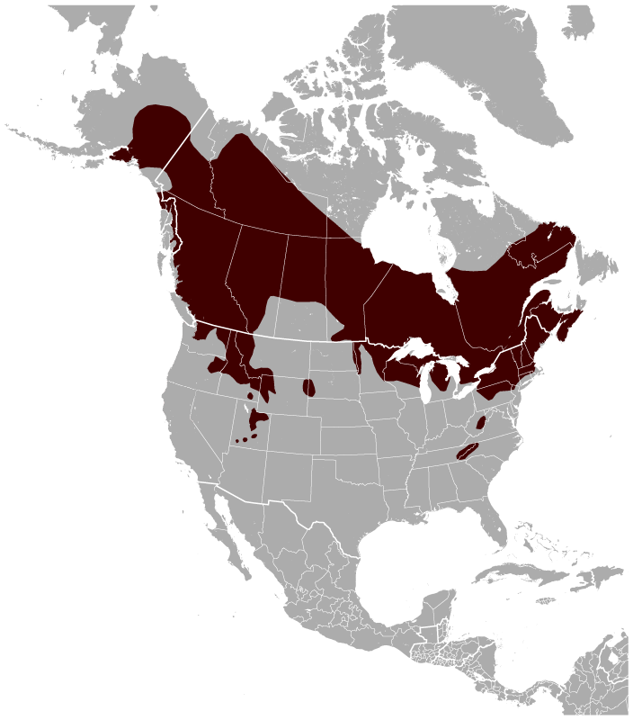 Geographical distribution of the Northern Flying Squirrel Glaucomys sabrinus. The map was created using the Generic Mapping Tools, GMT, version 5.1.1.